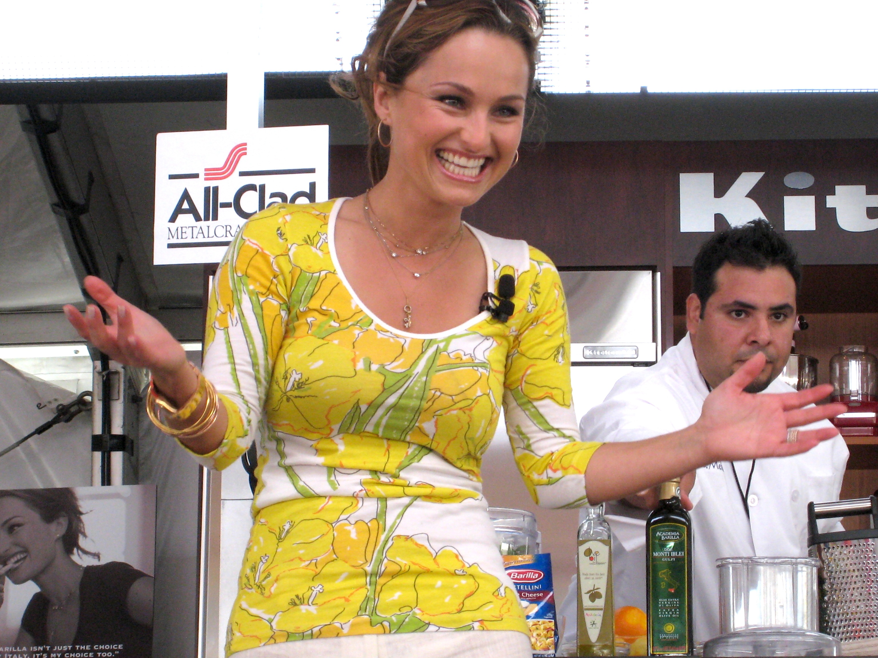 Giada De Laurentiis giving a presentation at the South Beach Food & Wine Festival, February 2007, immediately after an audience member said that "my wife watches your show all the time and I gotta say you are the most beautiful host on the food network" she thereafter made him come up and give her a hug.